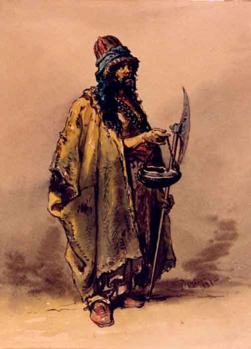 an aquarelle by Amedeo Preziosi